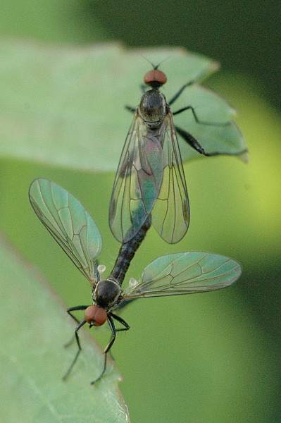 Picture taken in Commanster, Belgian High Ardennes . Species: Hybos culiciformis couple